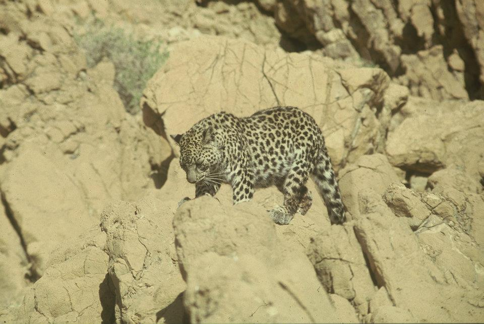 Leopard in the Judean desert photographed by